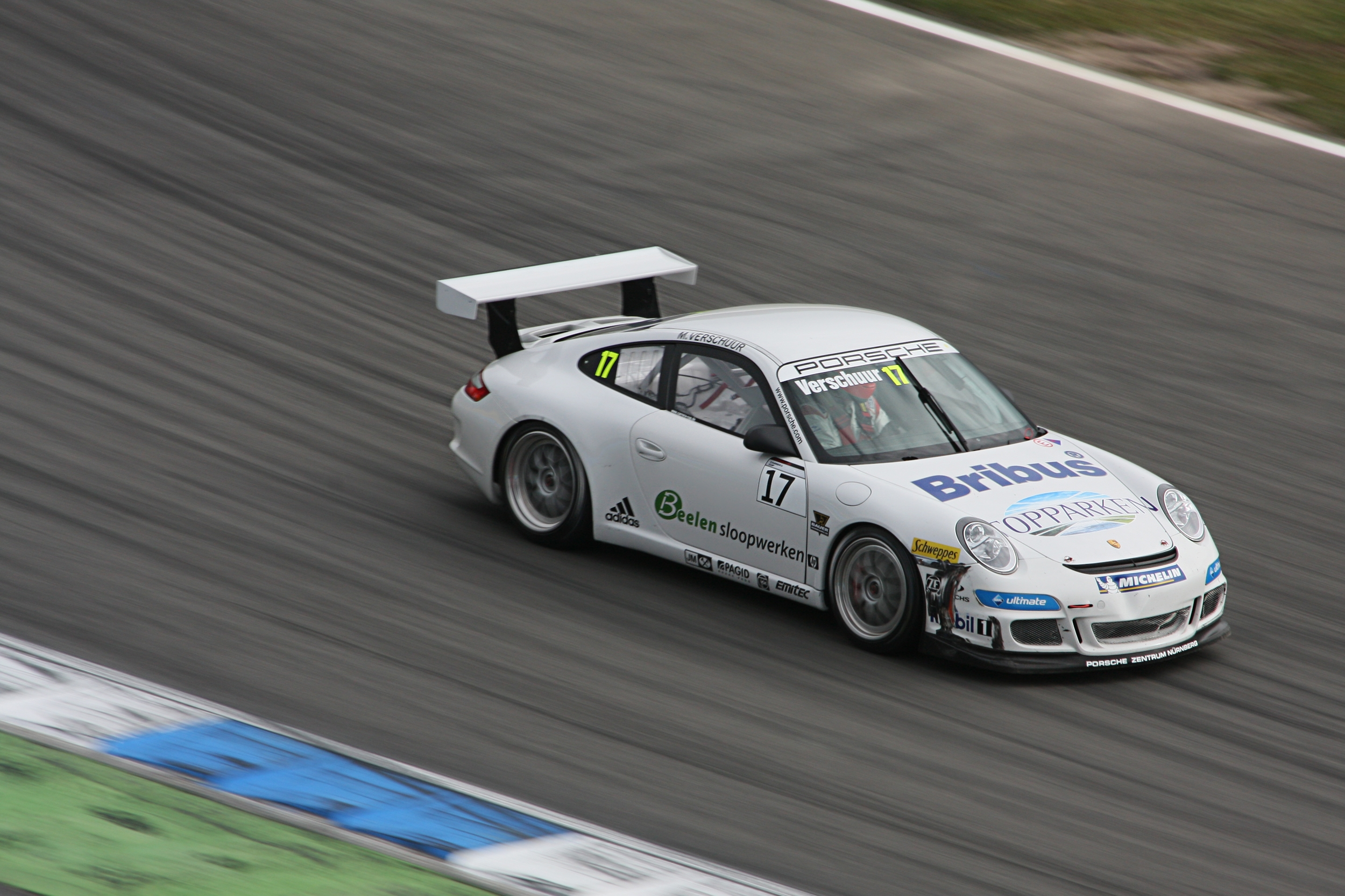 Porsche racing car at Hockenheim Ring, Mike Verschuur (driver).